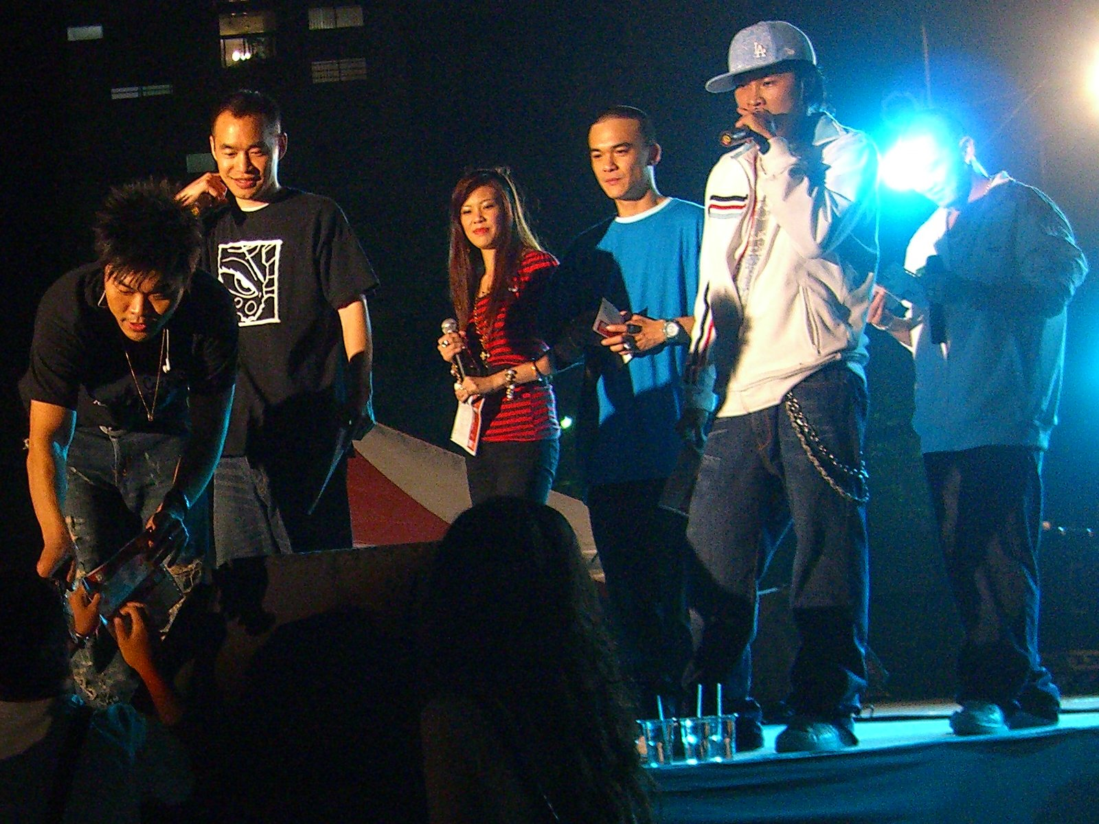 Machi members at Taiwan Shin Hsin University 50th anniversary celebrations concert 麻吉成員 於台灣世新大學50周年校慶演唱會上